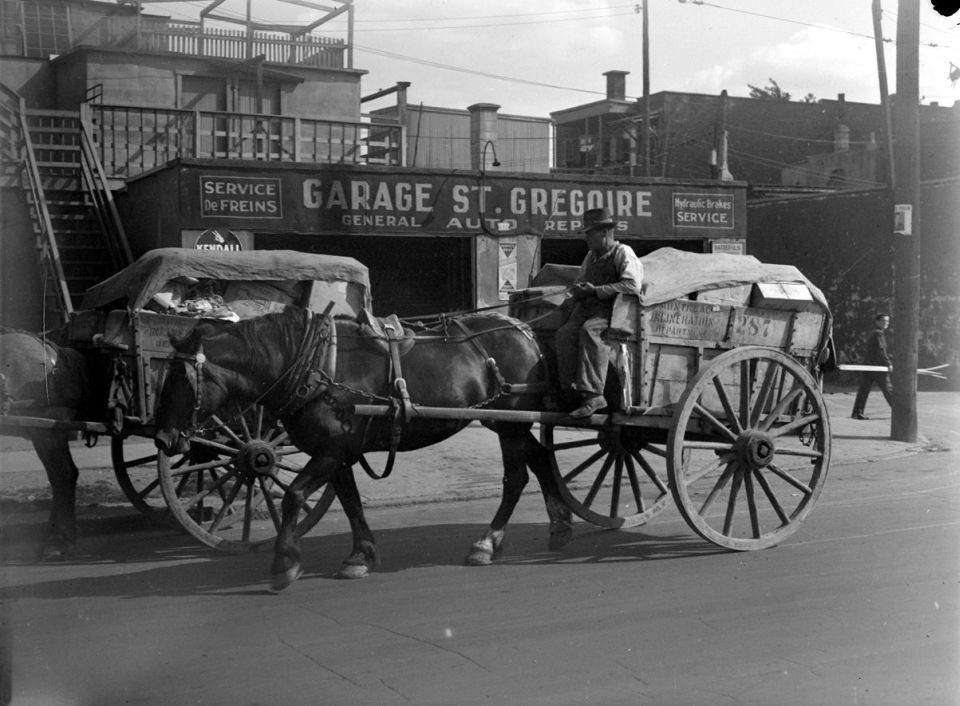 A cart of incineration service Montreal, pulled by a horse, carrying garbage.